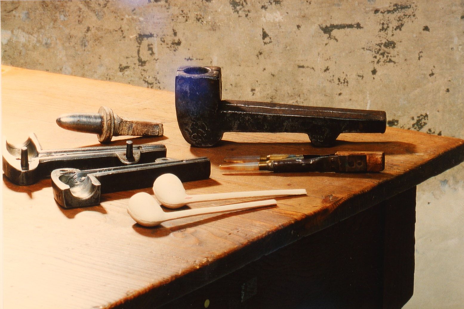 Tools of the clay-pipe baker "Starck" from Speicher